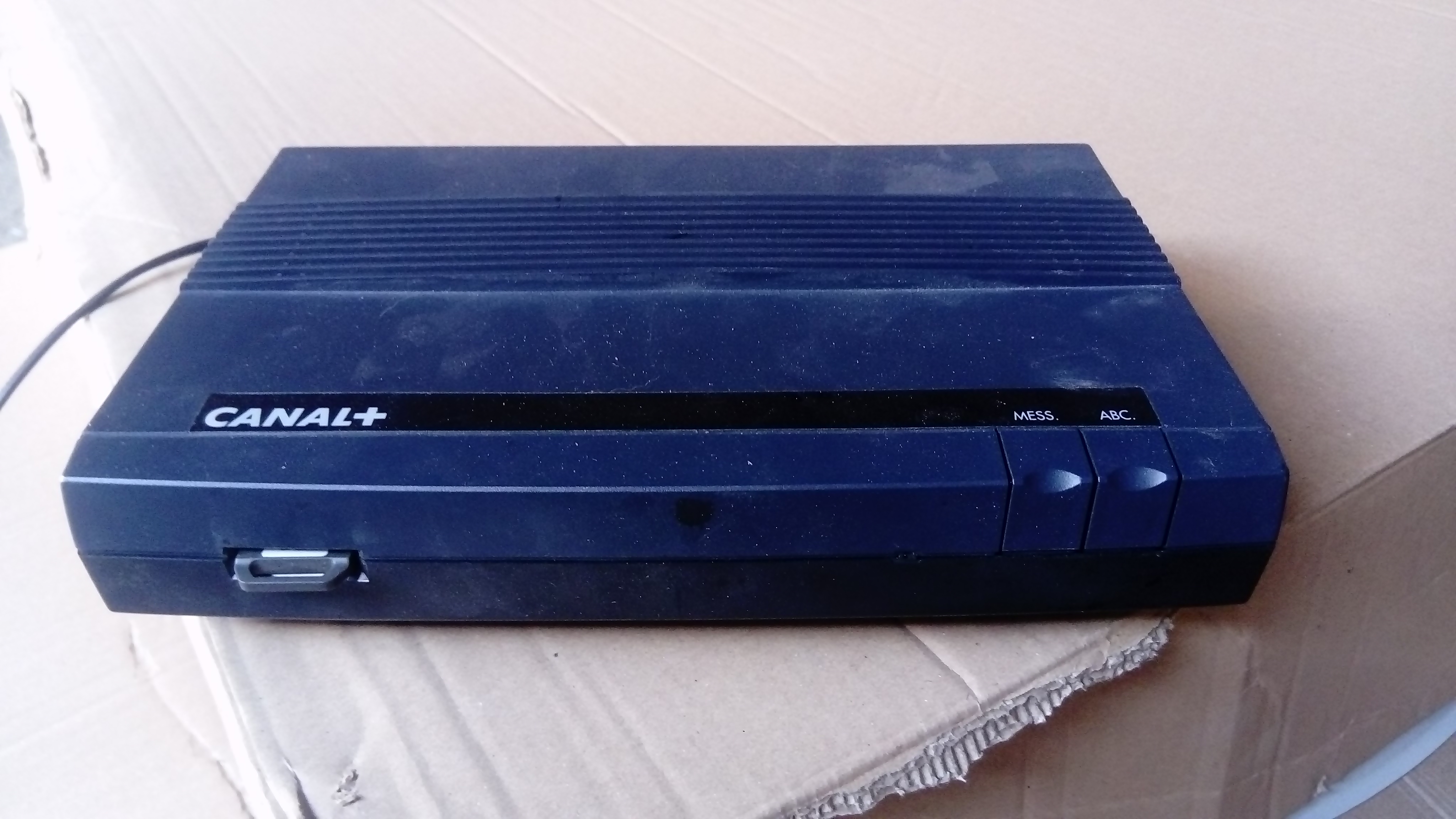 Decoder used between 1992 and the 2000s to decrypt the programs in analog hertzian of Canal +. It replaced the Discreet 11 which had become obsolete and unreliable against piracy. It became obsolete in 2010 when Canal + ceased broadcasting in analog hertzian.